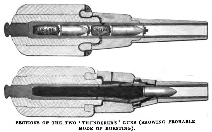 Diagrams showing how the left RML 12 inch 38 ton gun in the forward turret on British battleship HMS Thunderer (1872) probably burst in January 1879. The gun was double-loaded by mistake, and the bursting of the barrel was replicated later using the right gun from the same turret, hence probably verifying what had occurred. Top diagram shows gun loaded with both the first 110-pound gunpowder charge and live shell, innermost in the barrel; and the second 85-pound charge and dummy shell outermost. The reason for the different charges and shells is that this was part of a training exercise. Bottom diagram shows how the gun burst in the recreation of the event.